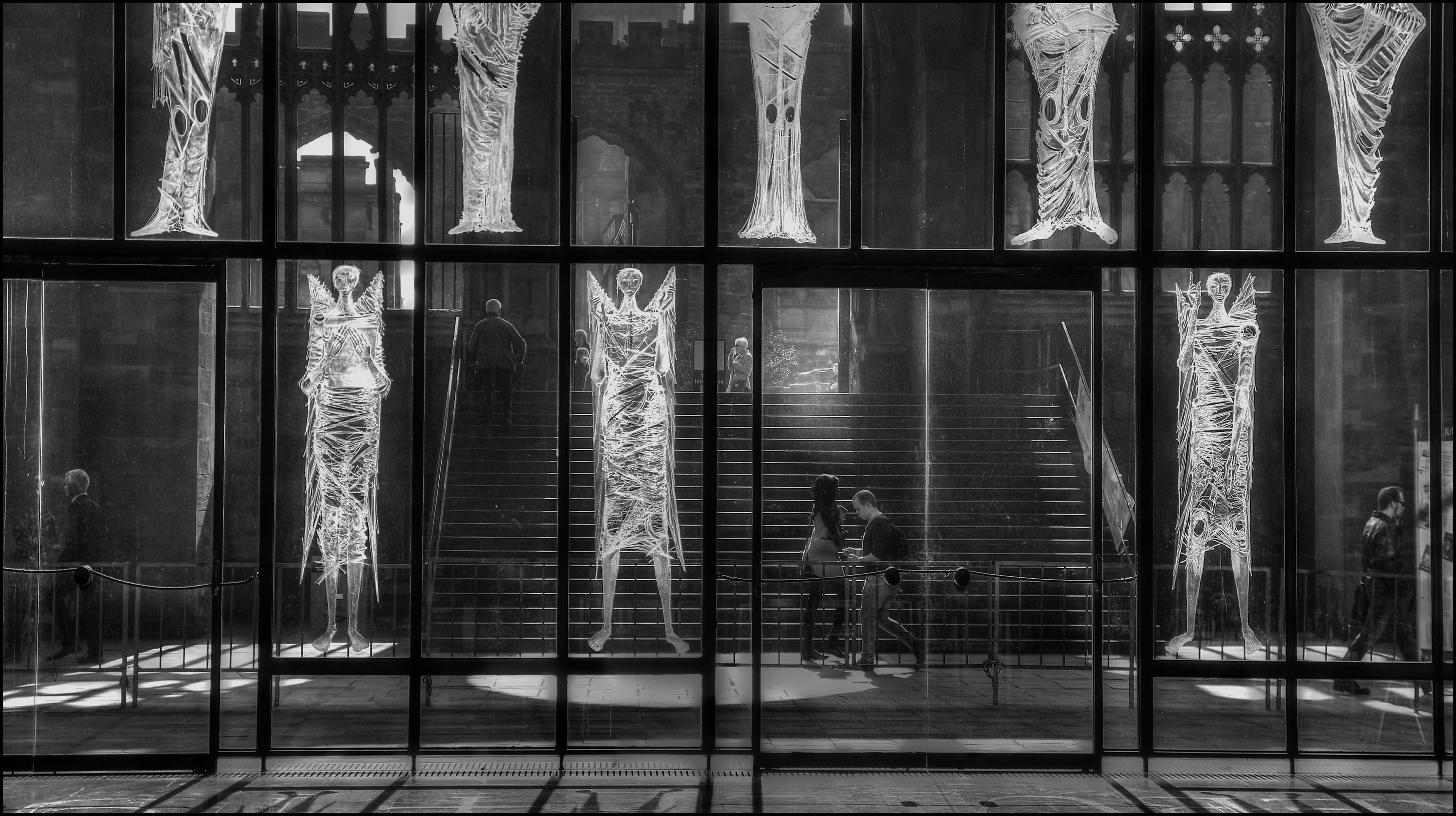 'Screen of Saints and Angels' at Coventry Cathedral, by John Hutton (1906 - 1978). The lower-left etched pane, The Angel with the Eternal Gospel, was smashed during a burglary in January 2020.